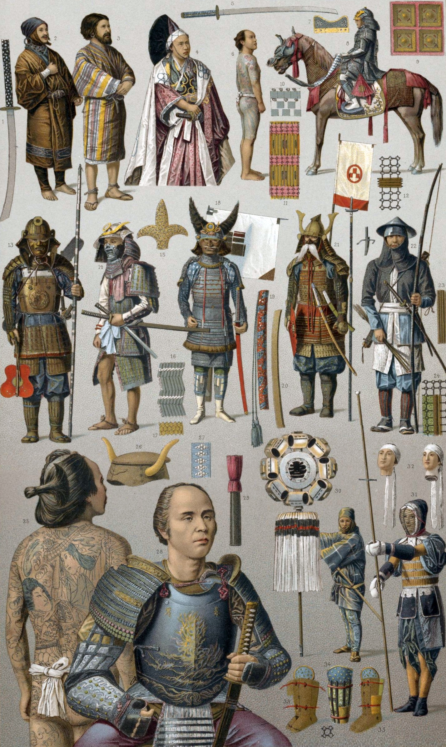 A lithograph plate showing Japanese Samurai warriors in a variety of different costumes early 19th-century Japan (ca. 1802-1814); Racinet lived 1825-1893.